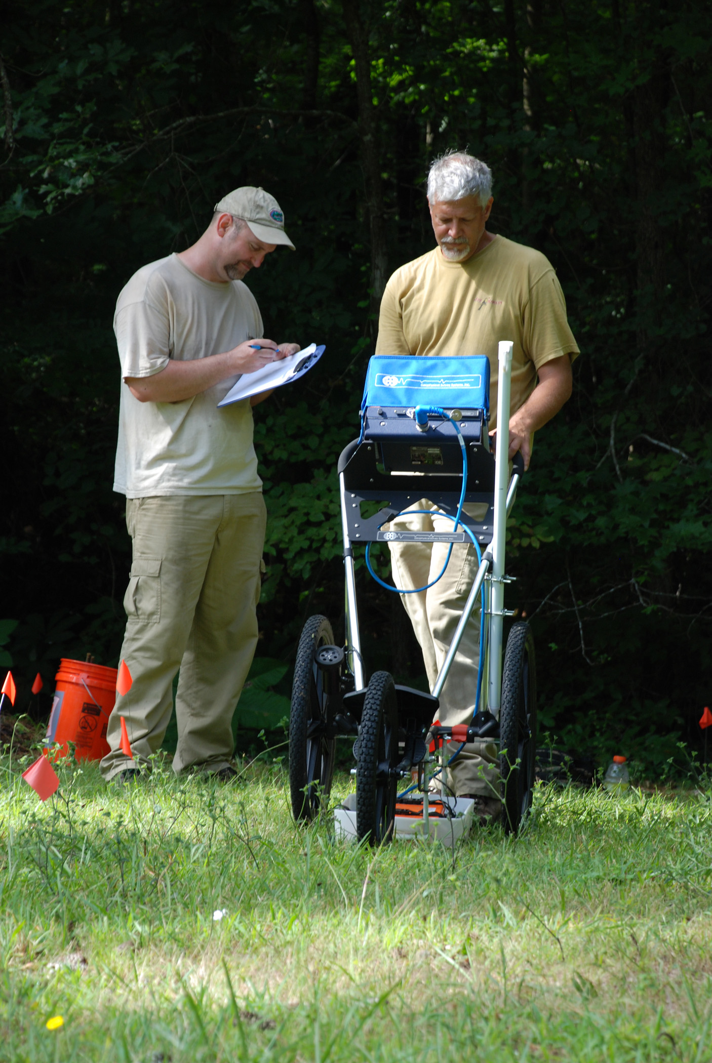 YORKTOWN, VA (Aug. 1, 2009) Kieth Pickles and Christopher Chilton, both from Southeastern Archeological Research Inc., use ground penetrating radar to survey burial sites discovered at Naval Weapons Station Yorktown during an investigation of the Kiskiak or "Cheesecake" Cemetery. Southeastern Archeological and Naval Facilities Engineering Command, Mid-Atlantic are surveying areas at Naval Weapons Station Yorktown with links to pre-colonial America. (U.S. Navy photo by Mark O. Piggott/Released)